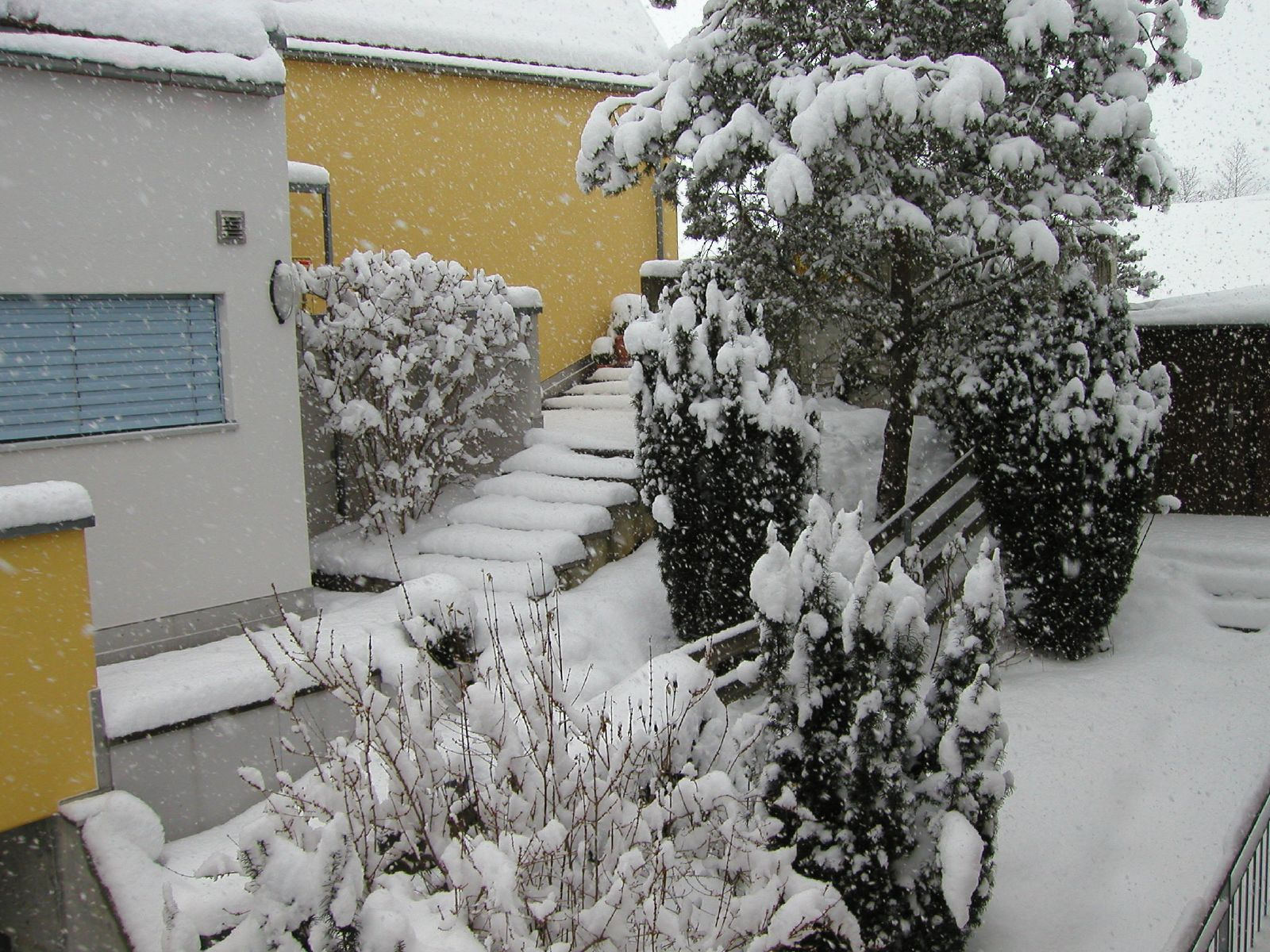 Heavy snow in Maisprach